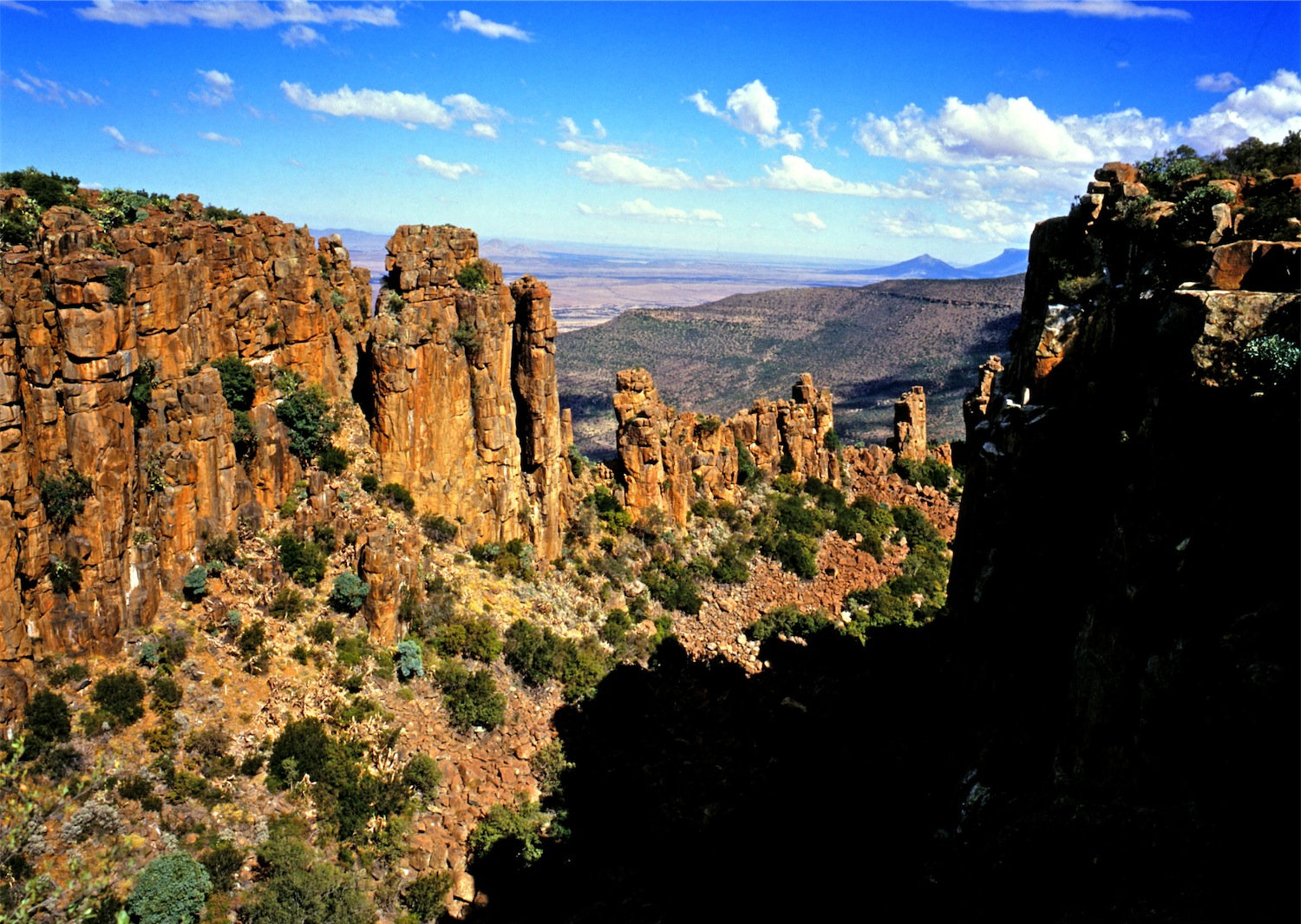 This media shows a South African Protected Site with SAHRA file reference 9/2/033/0024.